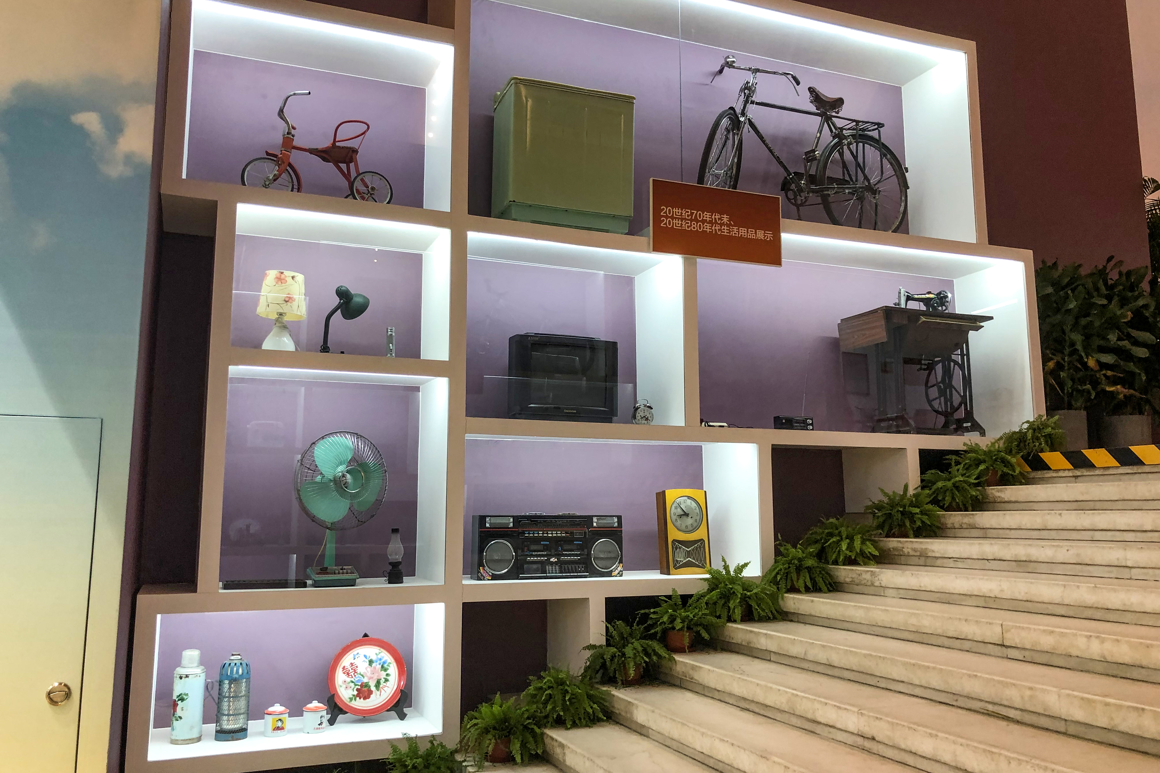 Life in the aftermath of cultural revolution and the start of reform and opening... "Three Major Items" change by decade.